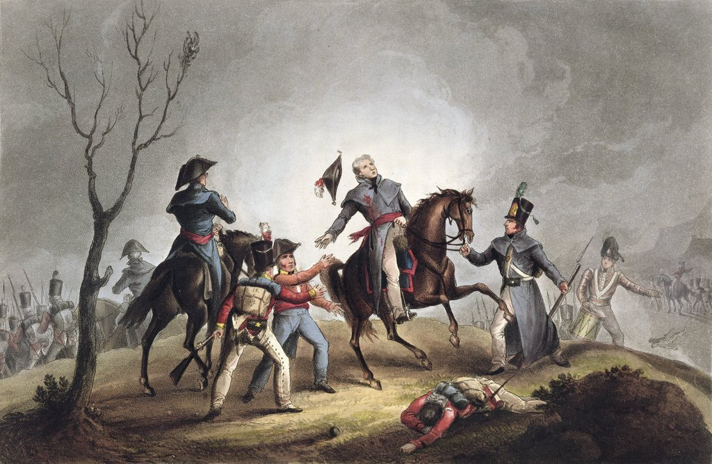 Death of Sir John Moore (1761-1809) 17th January 1809.